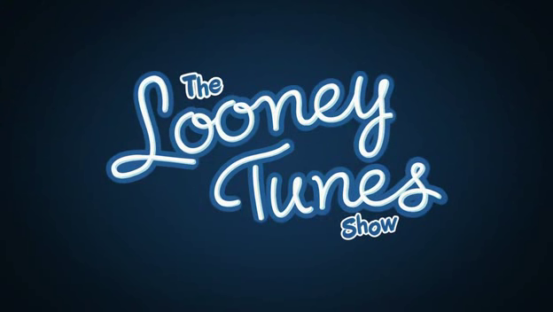 Title card for the animated television series The Looney Tunes Show.